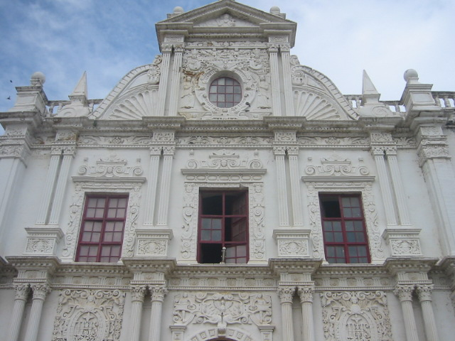 Church in Diu, Gujarat, India.